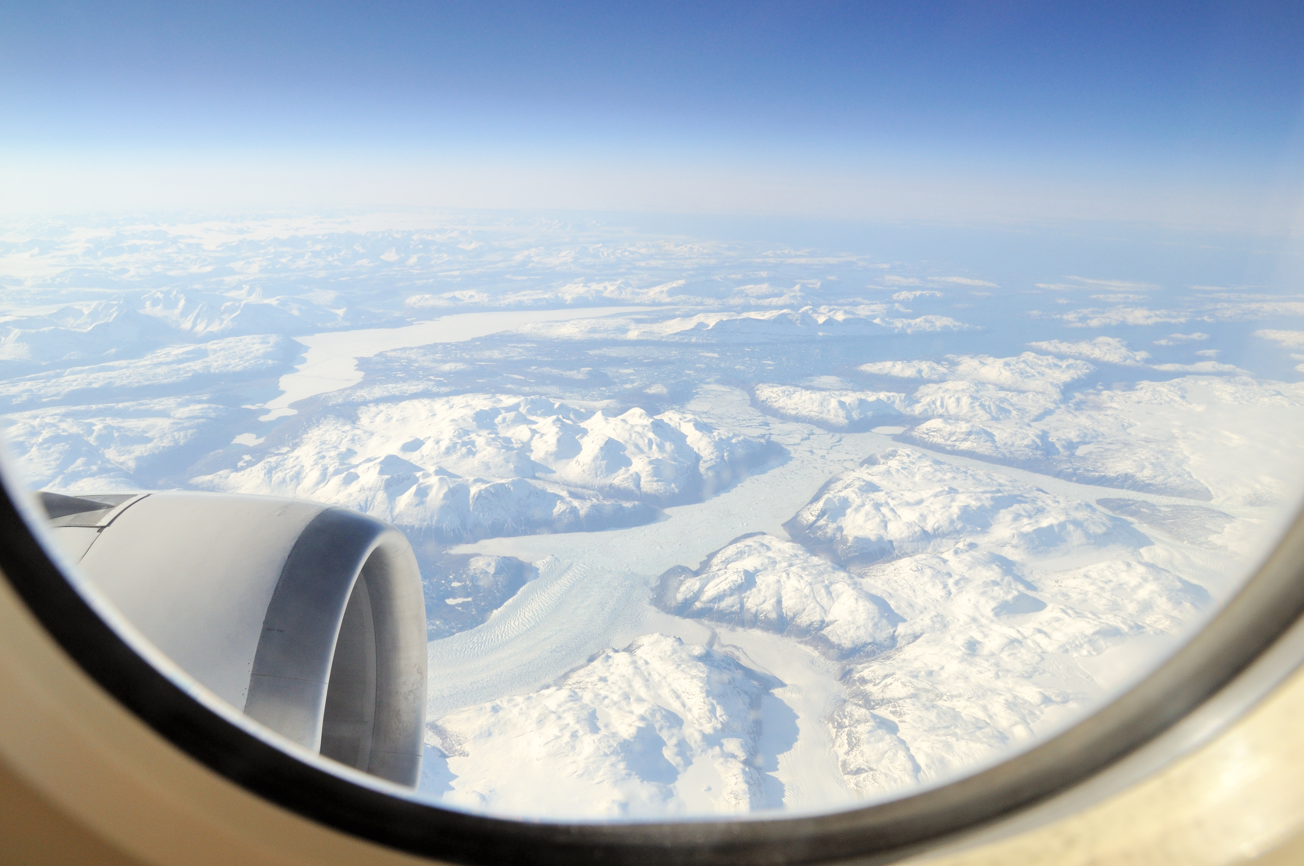 Ice fields over South Greenland